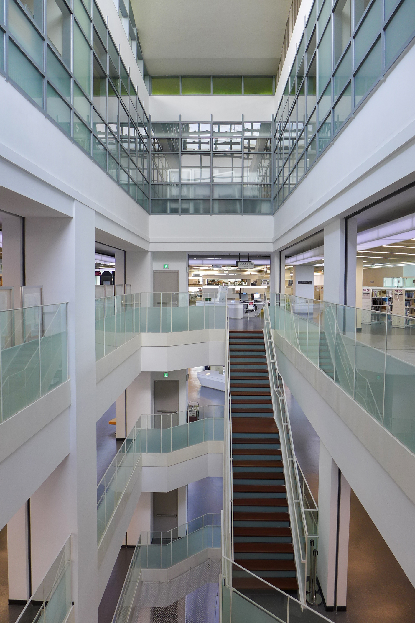 New Taipei City Level 6 Void